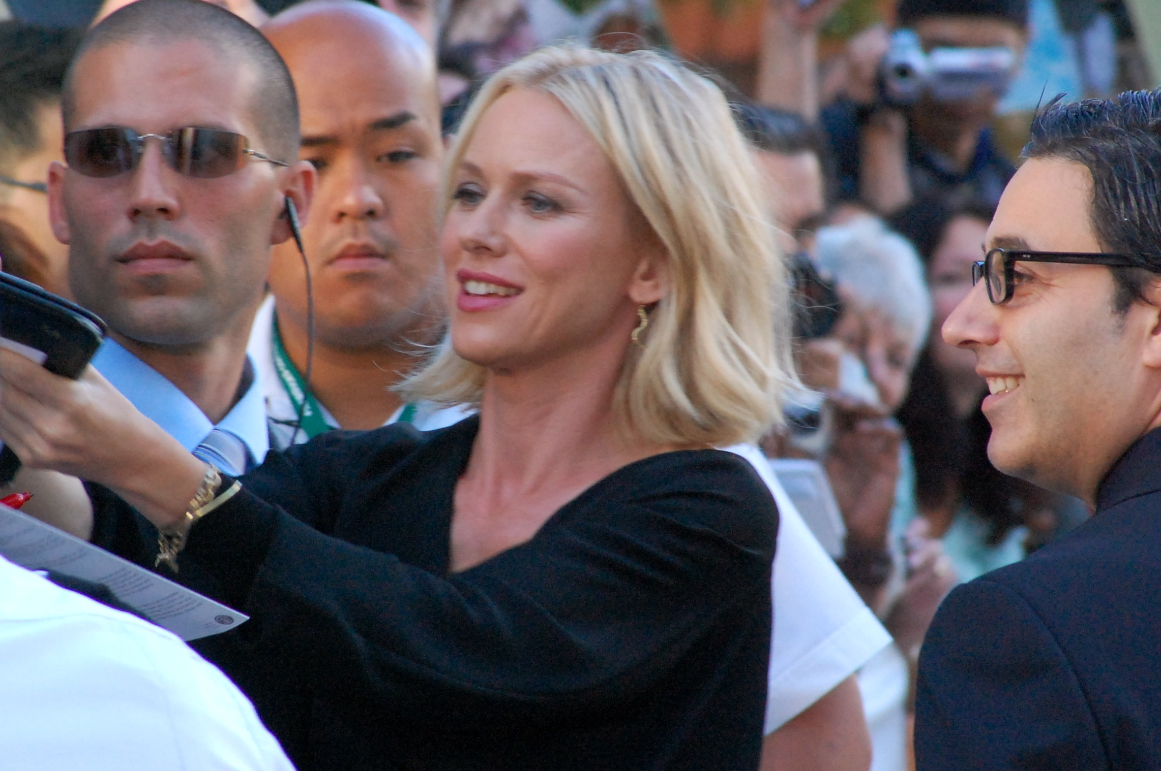 Mother and Child premiere - Roy Thompson Hall - September 14, 2009